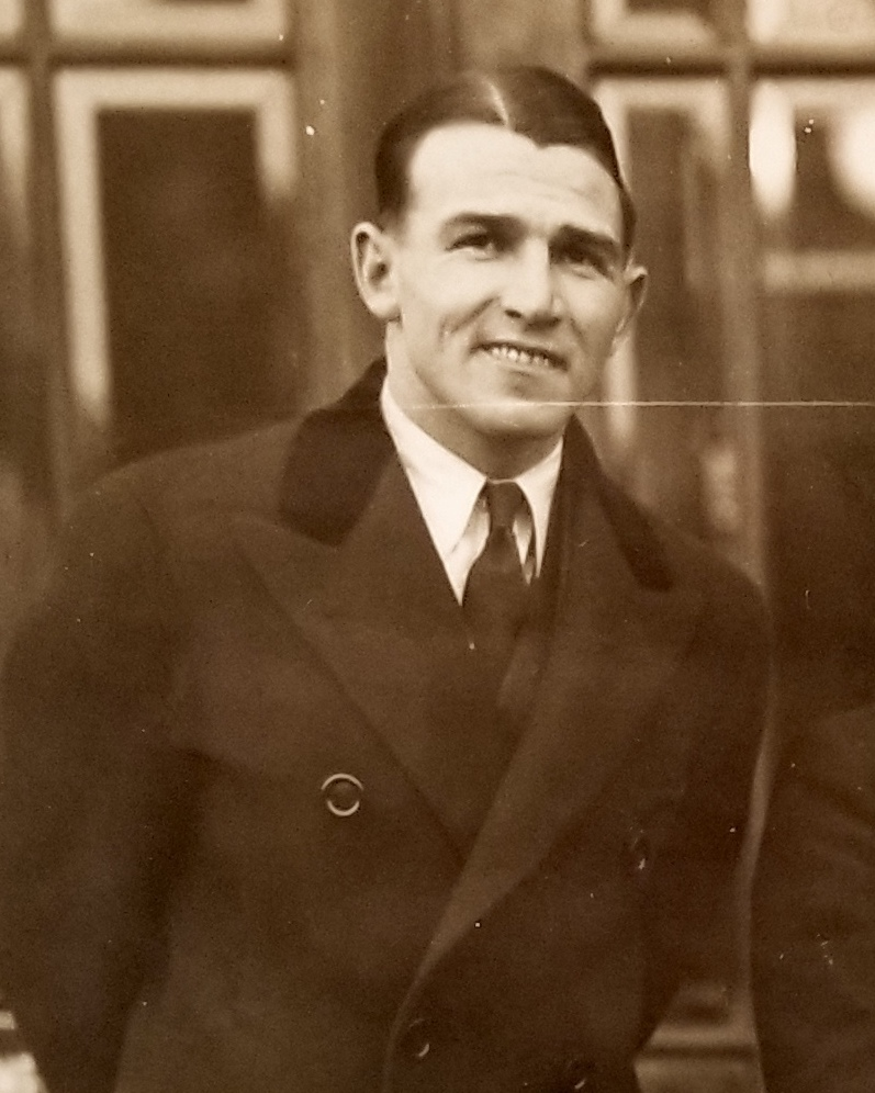 Former professional baseball player Doug Taitt in 1929